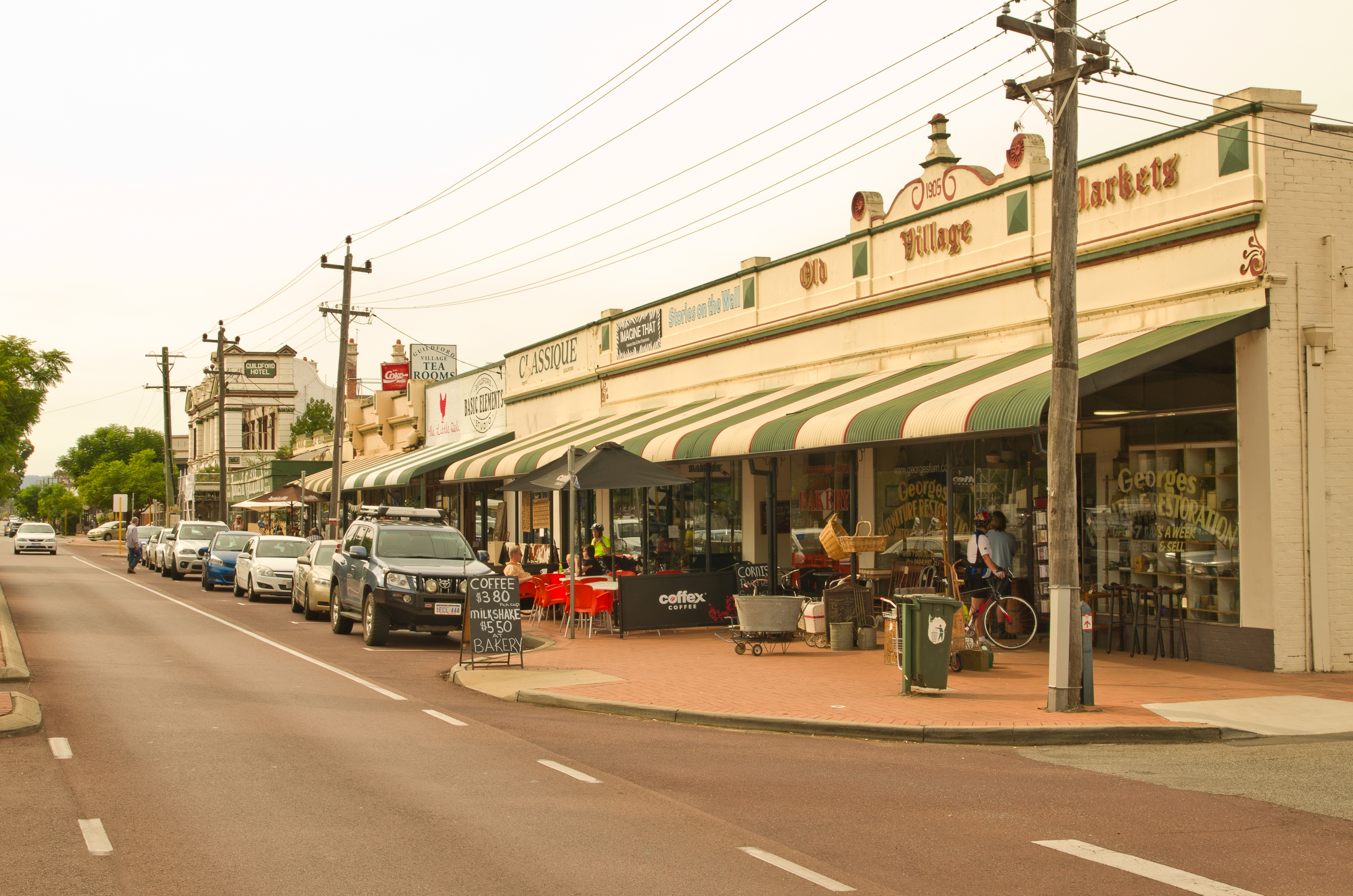 Guildford James Street